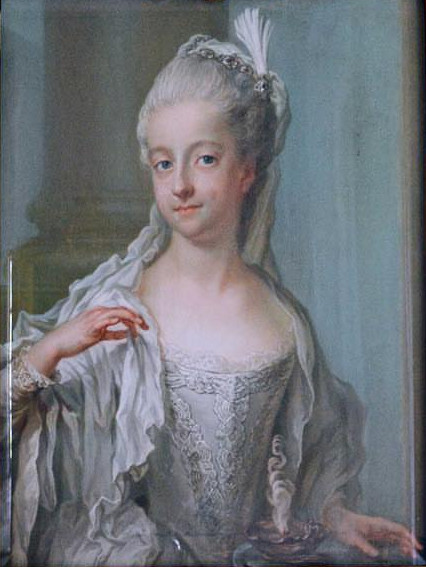 Swedish princess Sofia Albertina